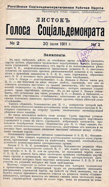 LISTOK GOLOSA SOTSIAL-DEMOKRATA [A LEAFLET OF THE SOCIALIST DEMOCRATIC VOICE]. NR. 2 (JULY 1911), ONLY, OF 6 ISSUES PUBLISHED. [Paris? ] : Imp. Gnatovsky, 1911-1912. Booklet. 8vo. In Russian. 20 pages. This issue includes the Declaration of the Émigré committee of the Bund against break up of the Russian Socialist Democratic party. Uncut in excellent with "Archiv Bunda" stamp on title page.